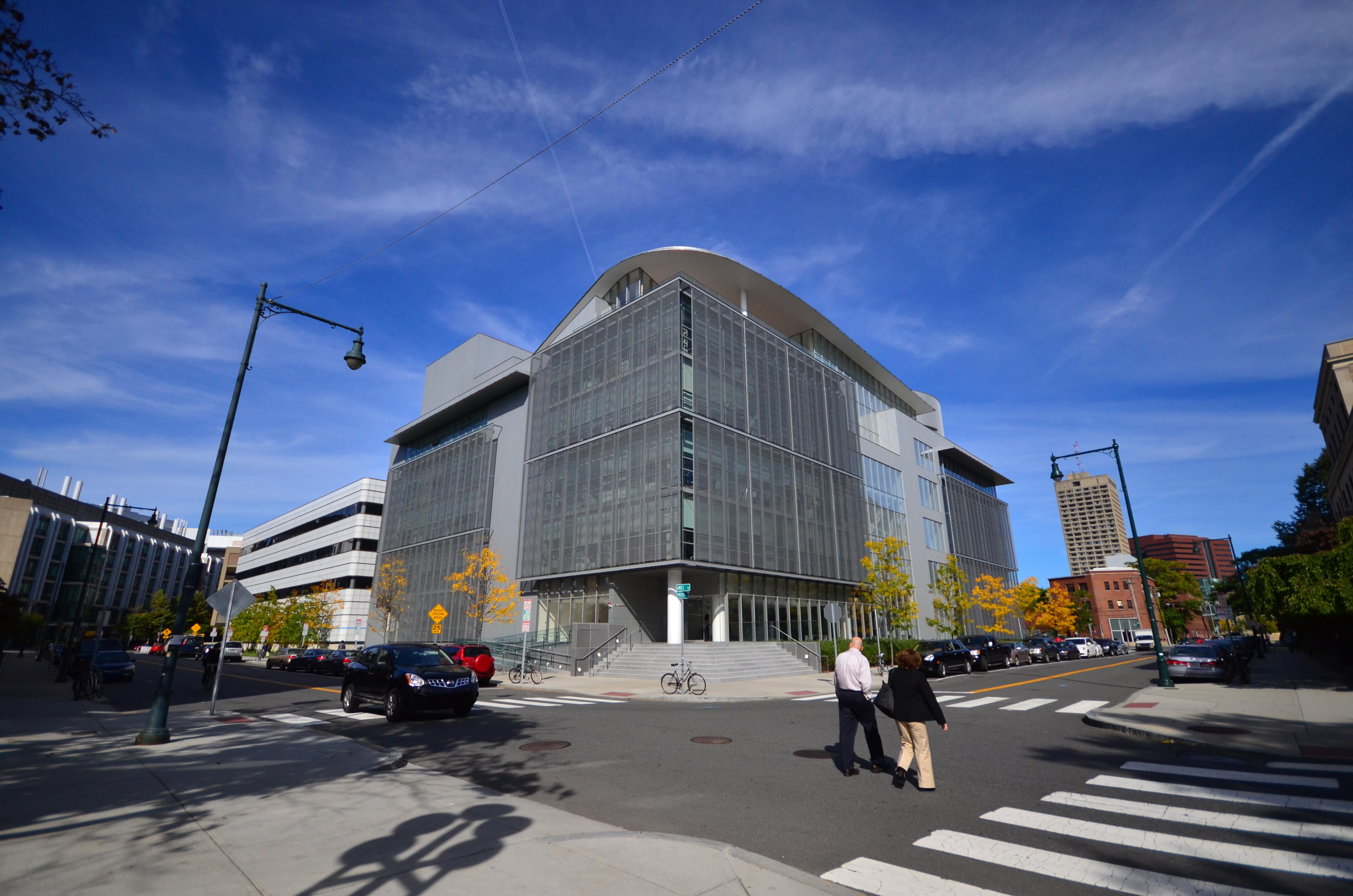 The new MIT Media Lab building (E14)